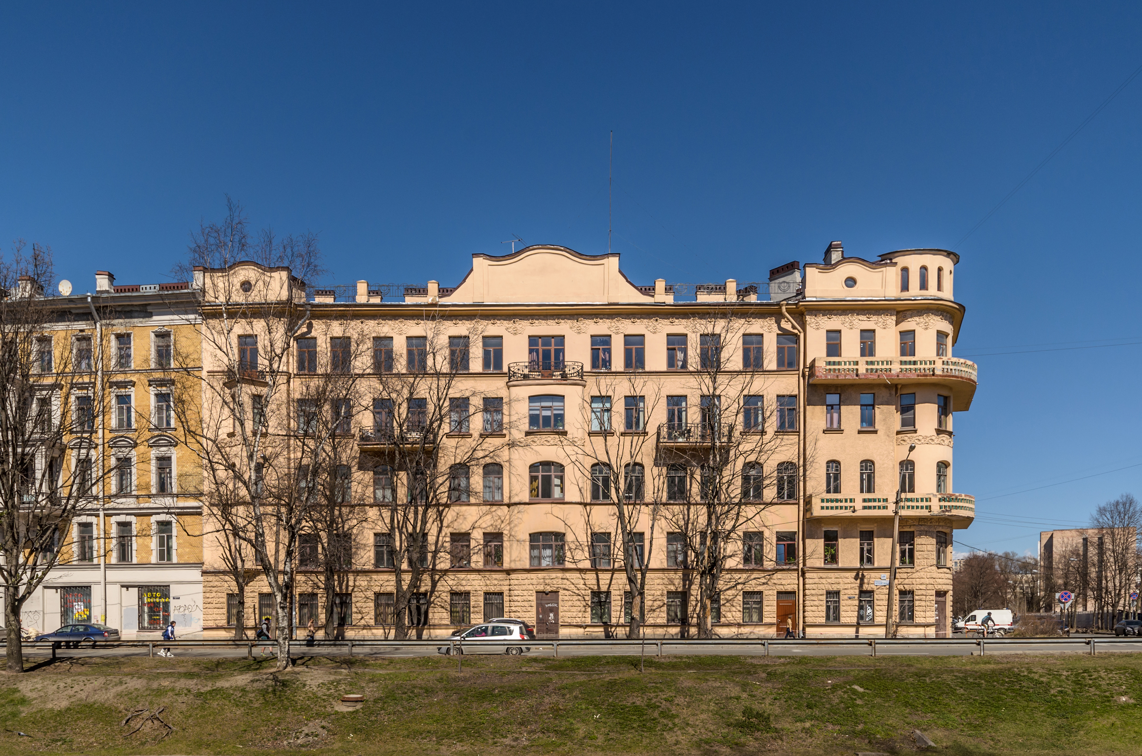 Porshneva apartment house at Chyornaya Rechka embankment in Saint Petersburg